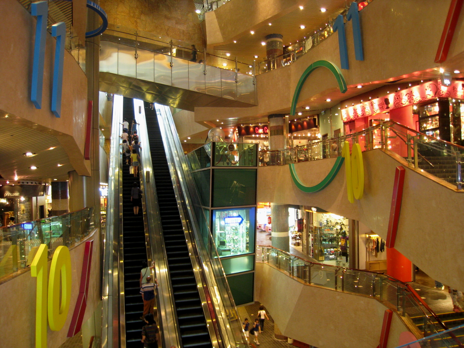 Langham Place The Spiral Void 朗豪坊